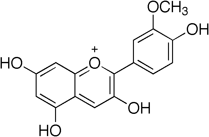 chemical structure of peonidin